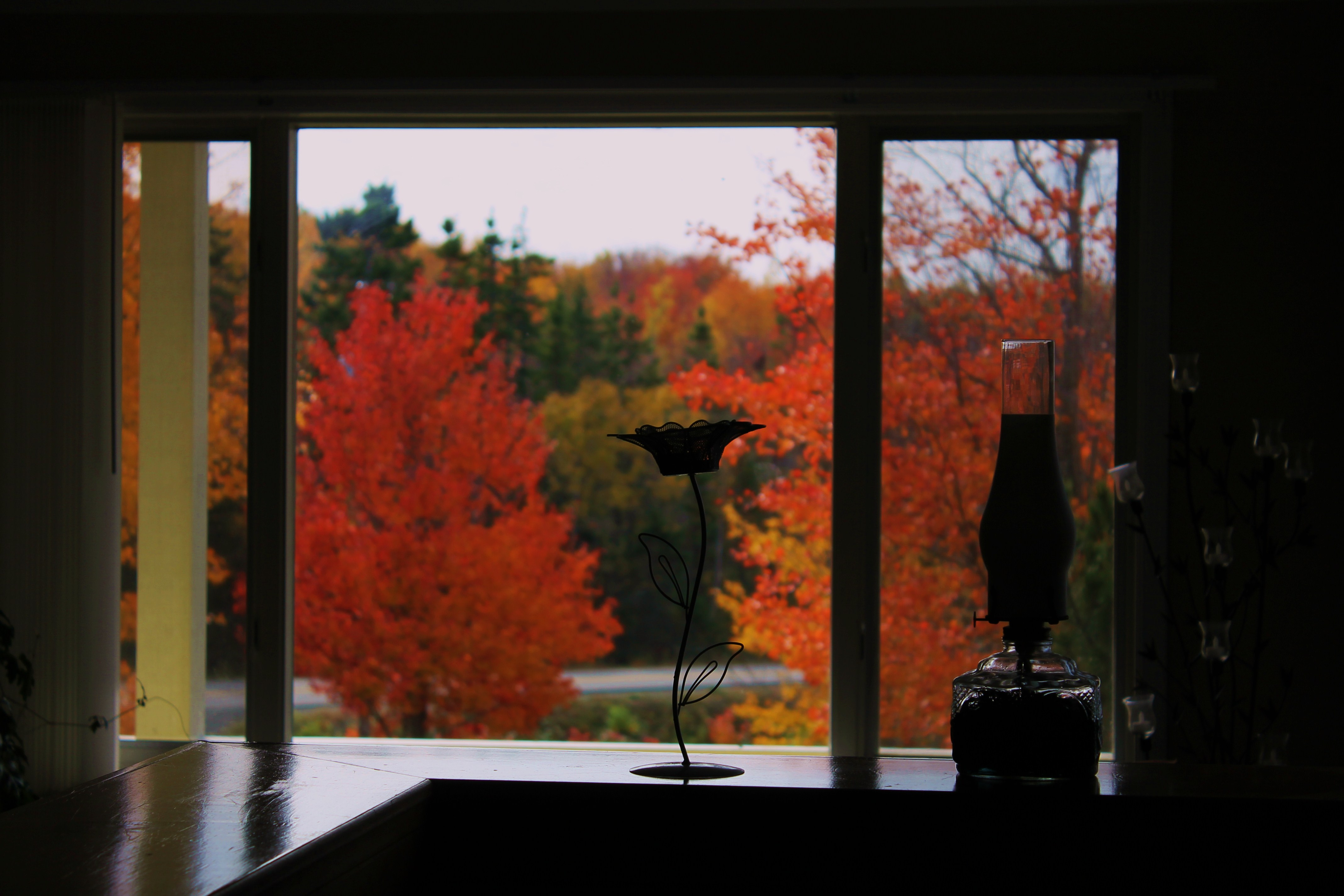 A window and indian summer outside of it, Canada